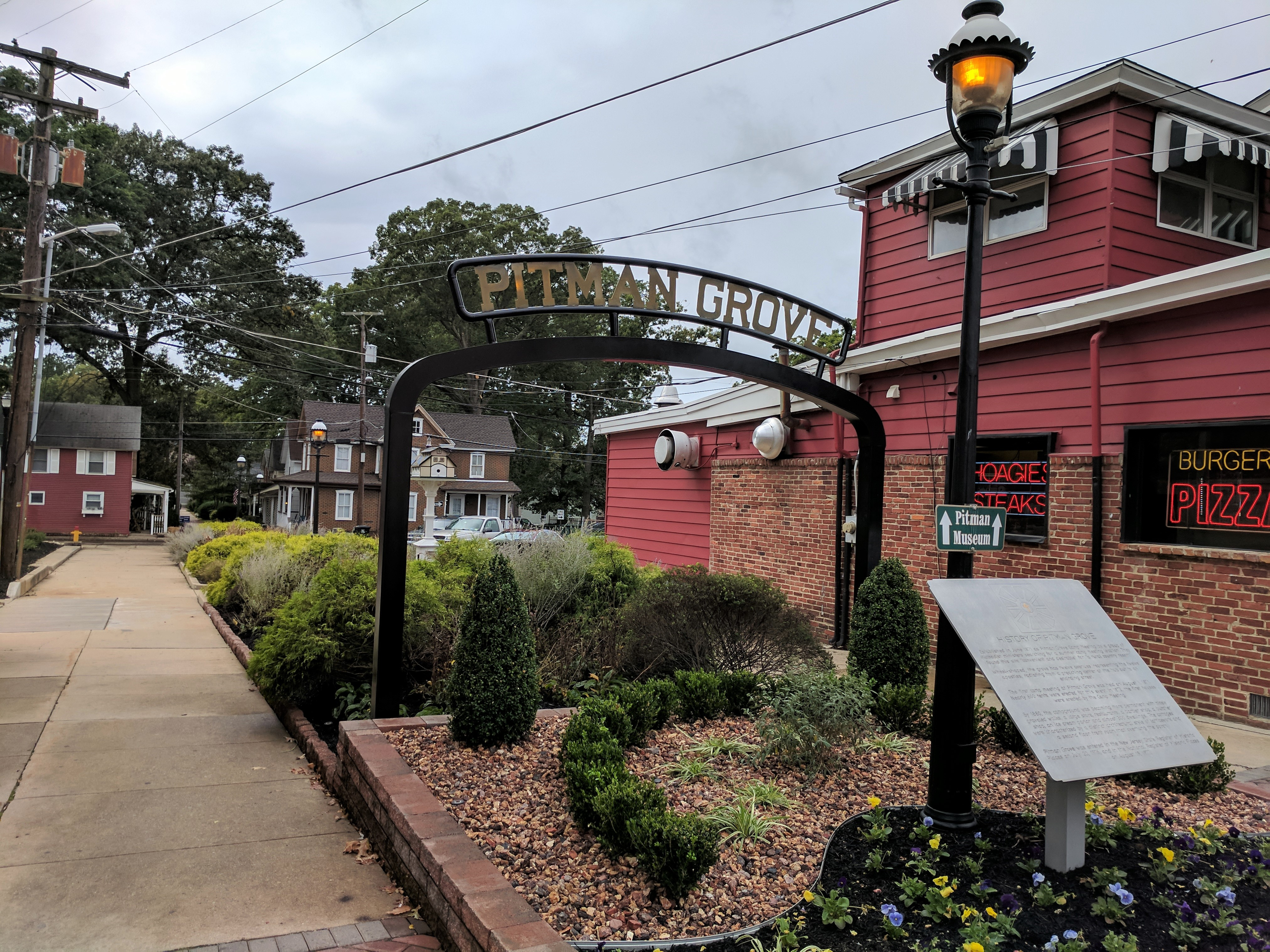 Sign at the entrance to Pitman Grove.